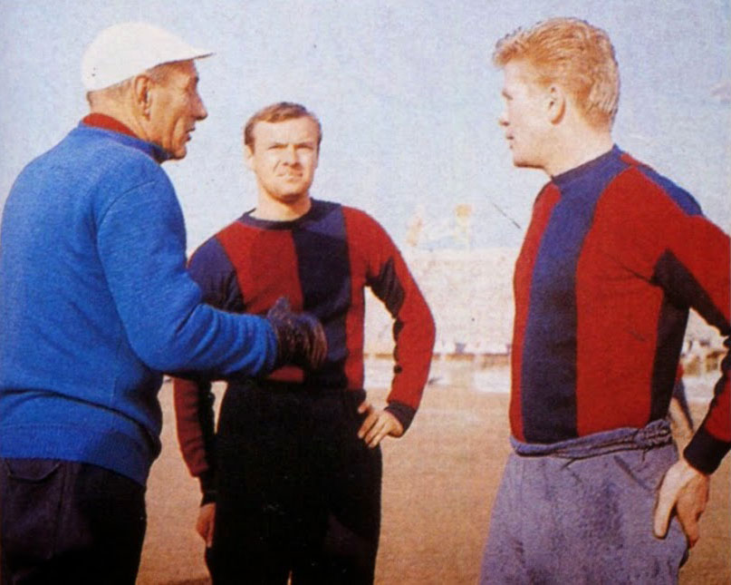 From left to right: Bologna F.C. manager Fulvio Bernardini with his foreign duo of Danish Harald Nielsen and West German Helmut Haller in the early 1960s.